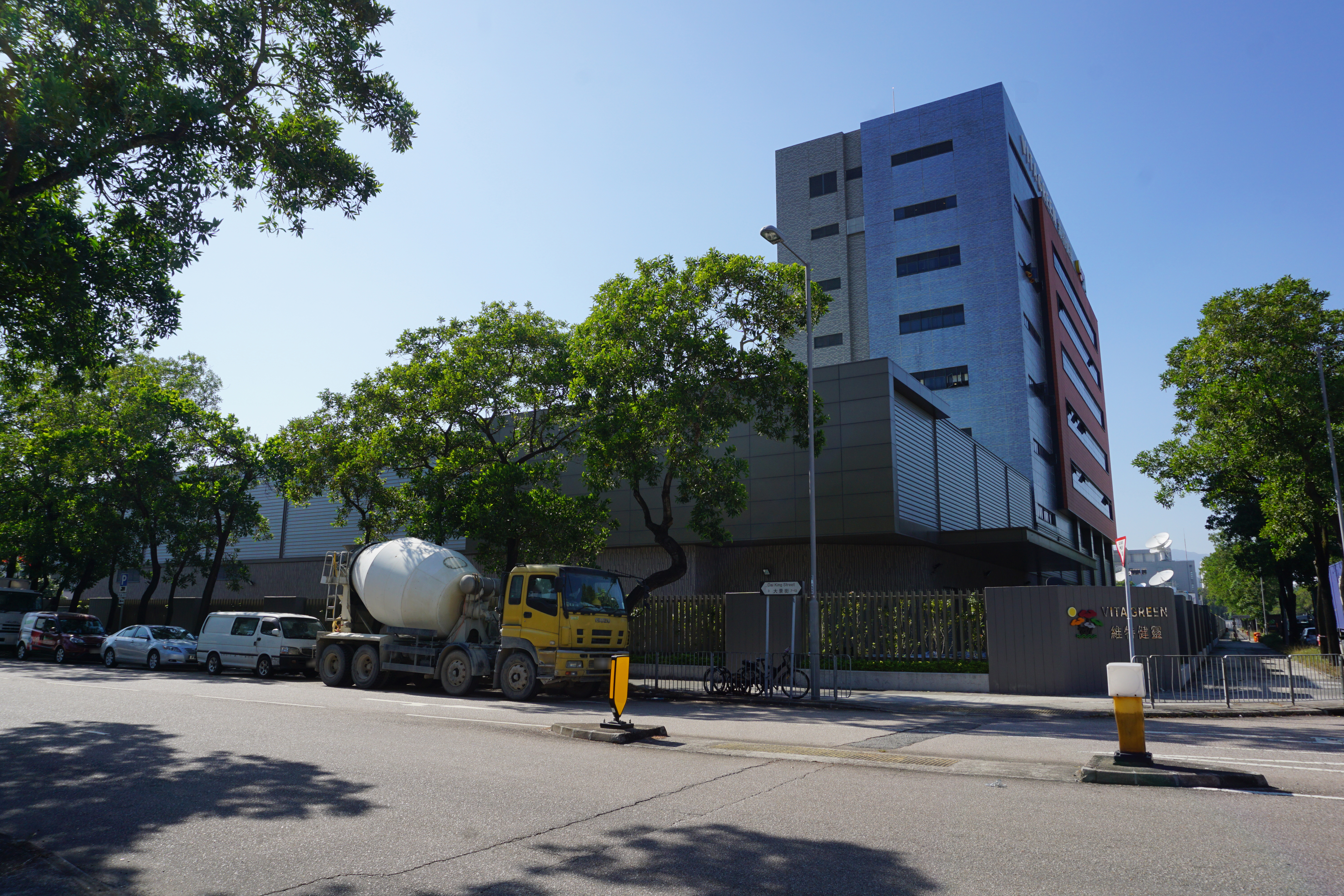 Vita Green Factory in Tai Po, Hong Kong.